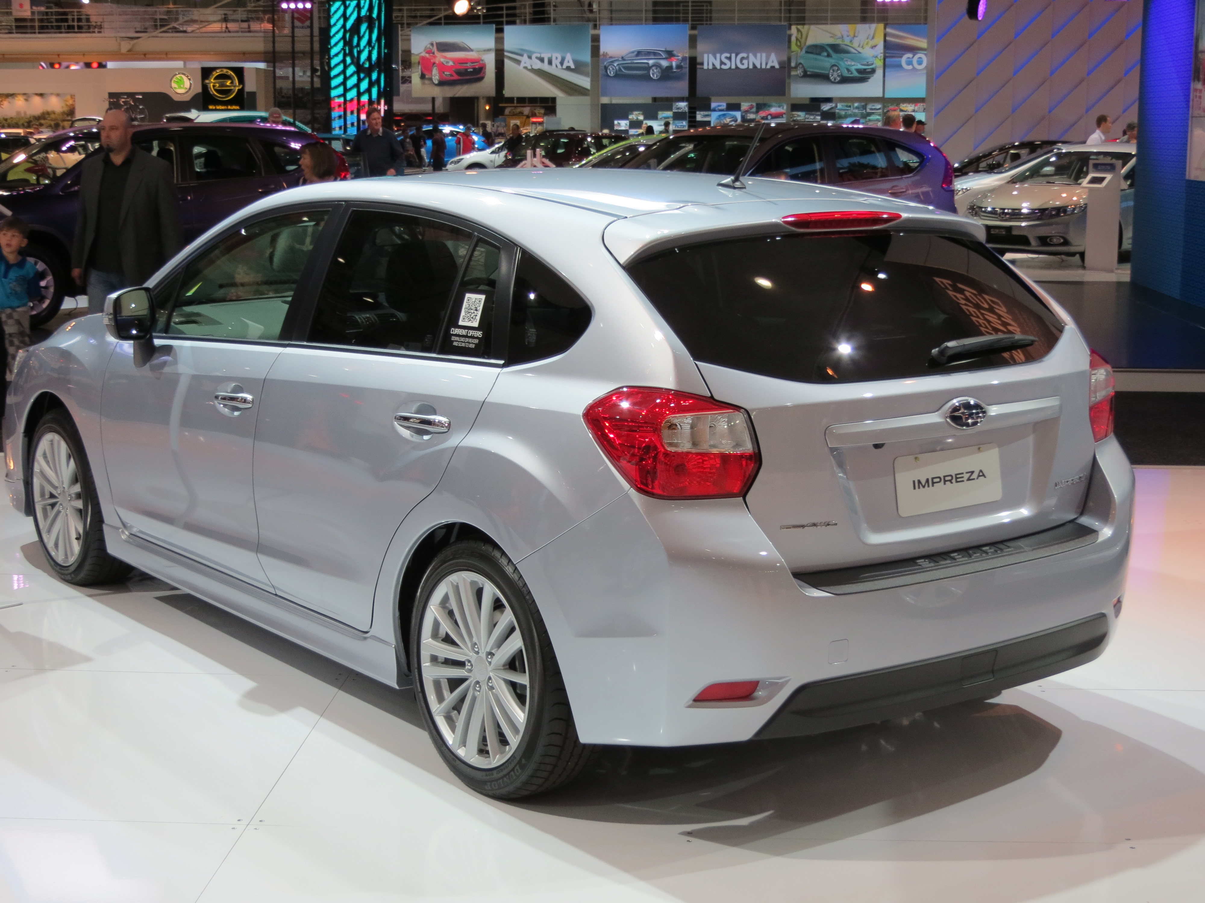 2012 Subaru Impreza (GP7 MY13) 2.0i-S hatchback. Photographed at the 2012 Australian International Motor Show, Sydney, New South Wales, Australia.